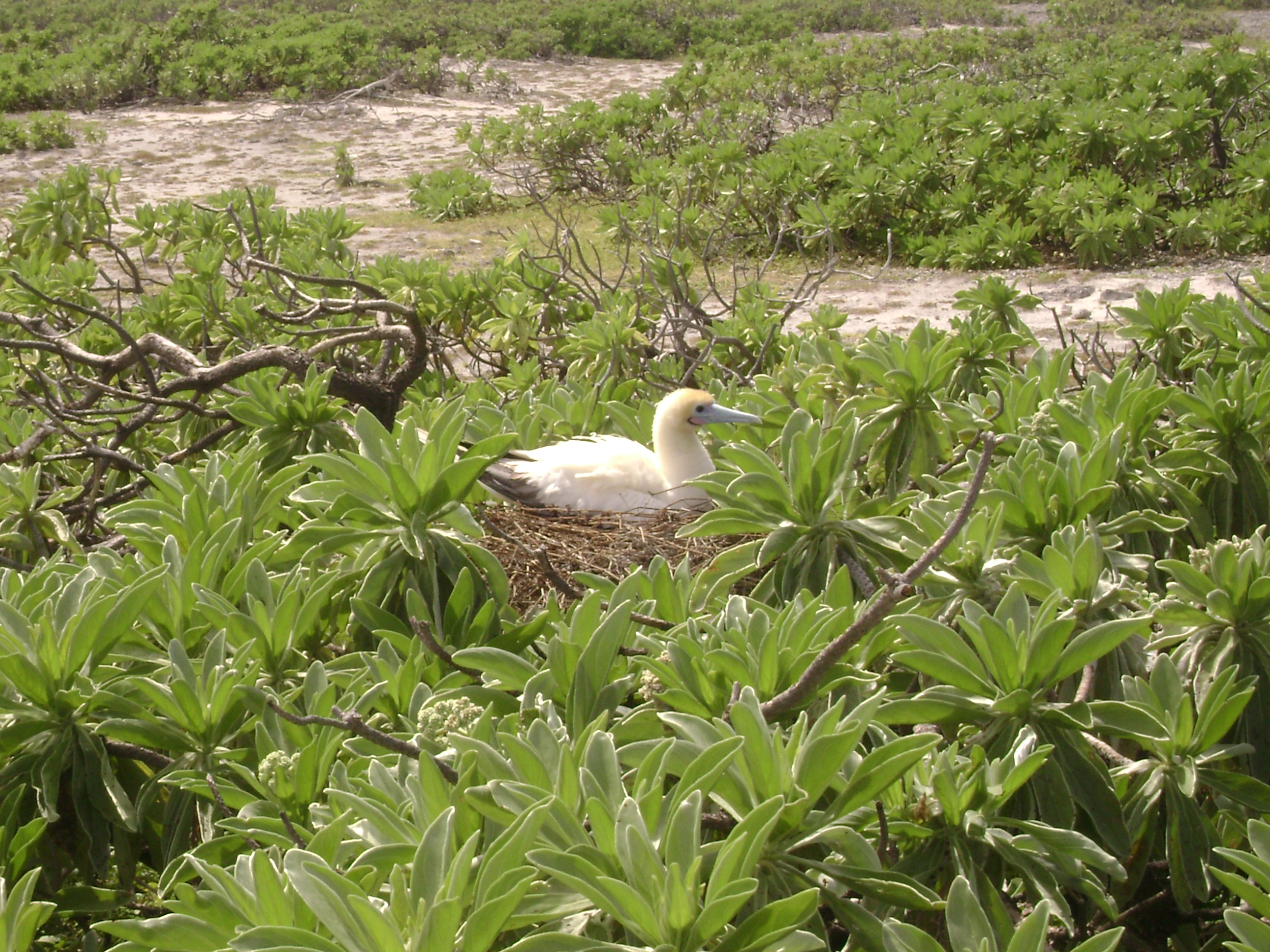 Tromelin Island in Indian Ocean belonging to Scattered Islands, within the territory of the France (territory French Southern and Antarctic Lands).